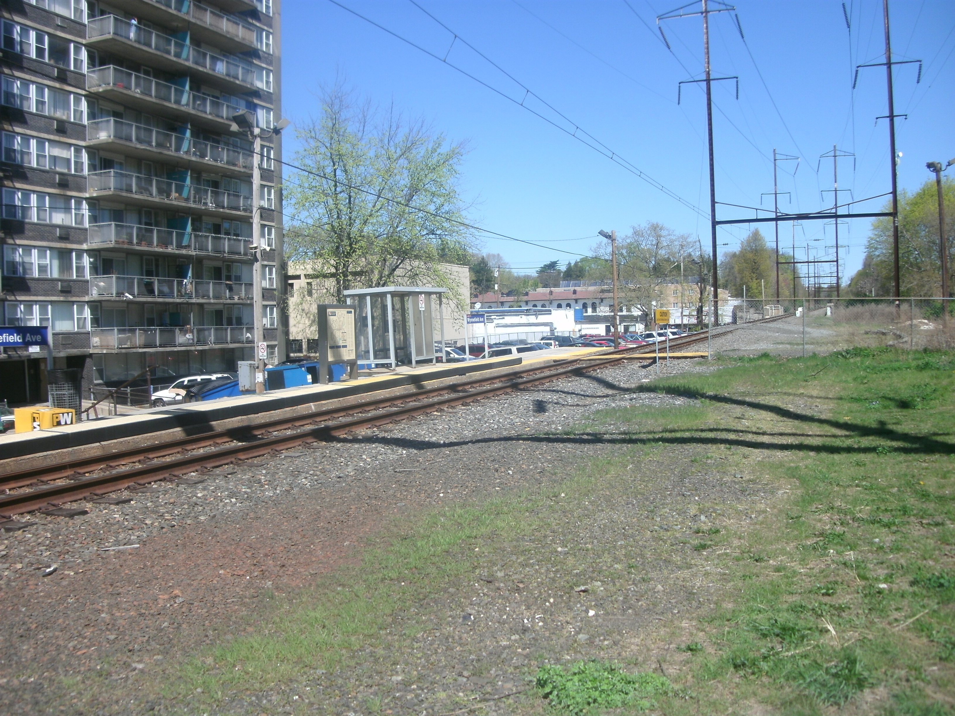 The Wynnefield Avenue SEPTA Regional Rail station on the Cywnyd Line in Philadelphia, Pennsylvania.